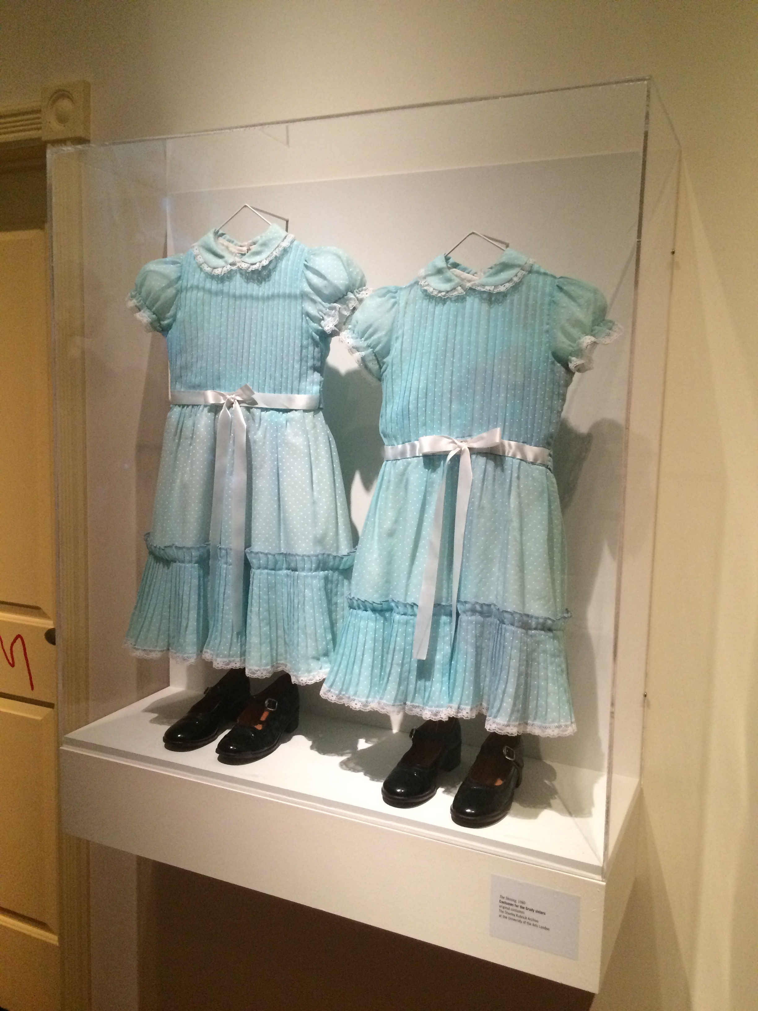 displayed at Stanley Kubrick: The Exhibit, TIFF, Canada.